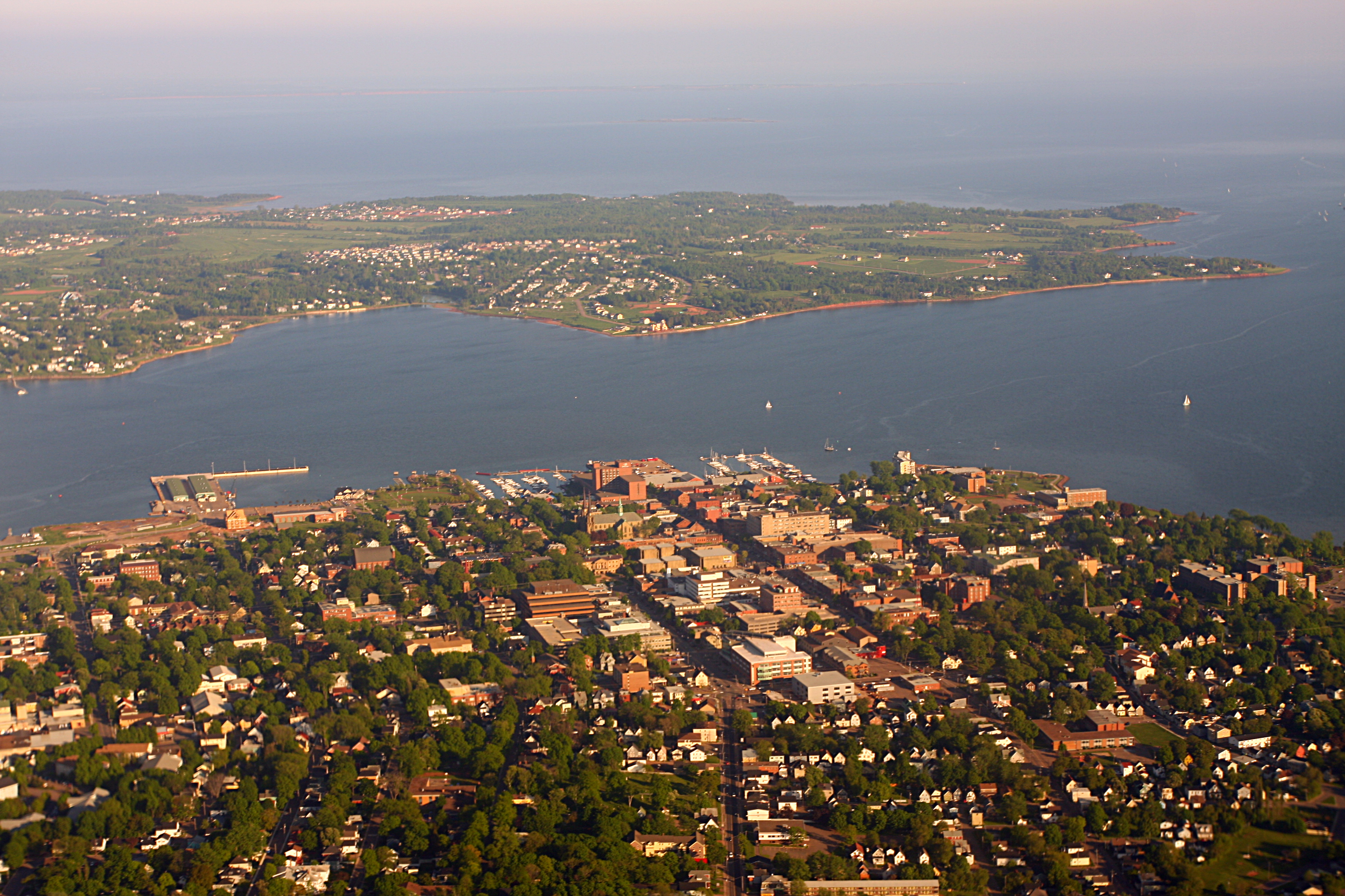 From my flight to Ontario